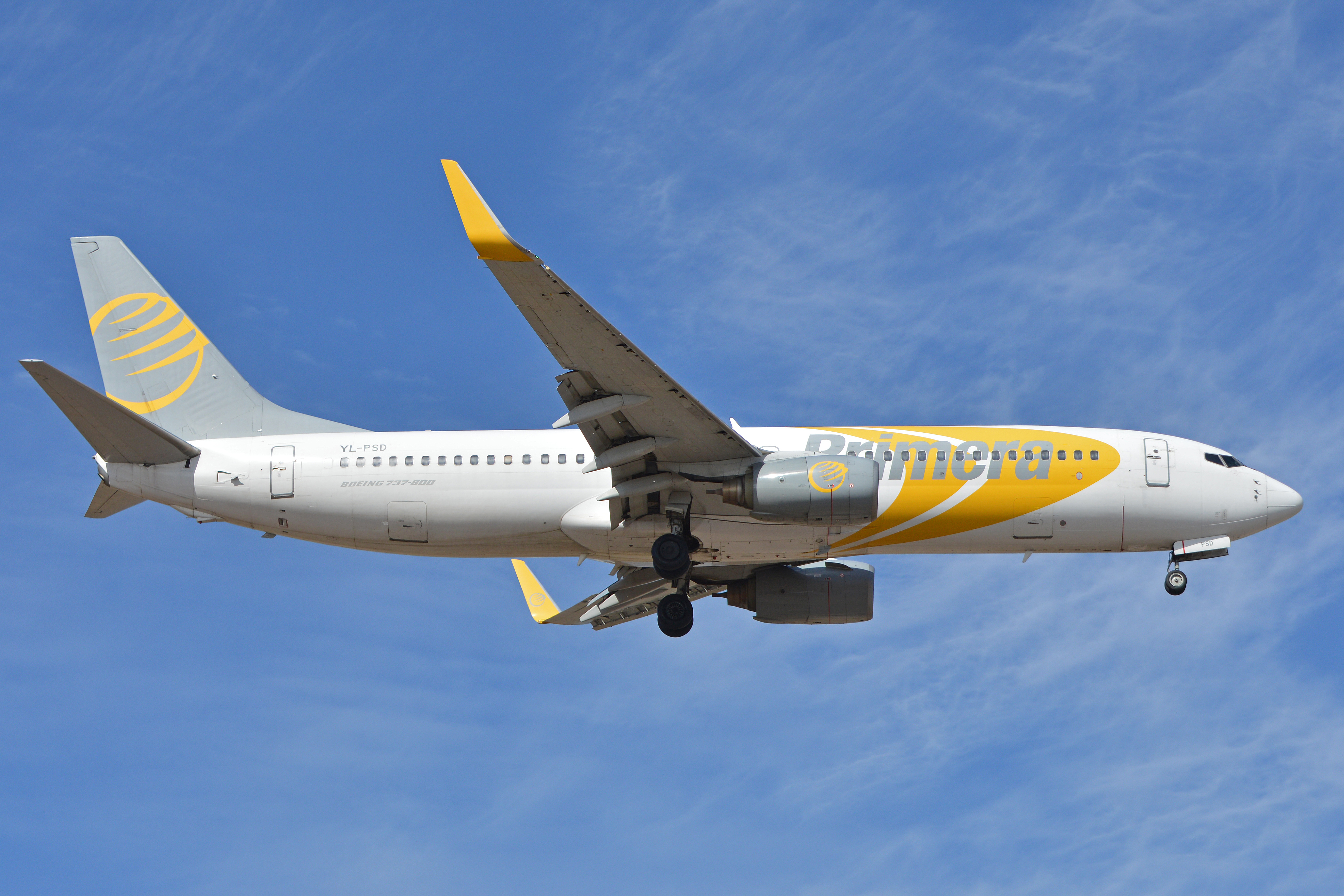 c/n 28618, l/n 514. Built 2000. Arriving on flight PRW643 from Stockholm. Tenerife South Airport, Canary Islands. 17-1-2016